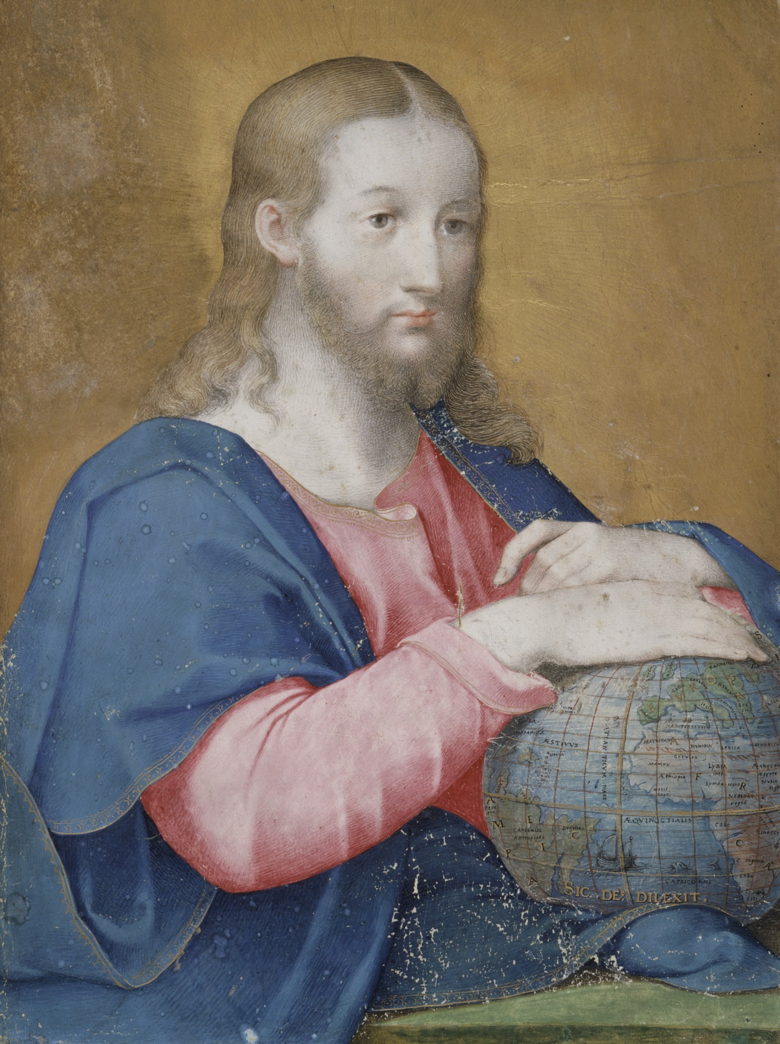 Flanders, 16th century Paintings Miniature Gift of Dr. Vollbehr (26.13) European Painting